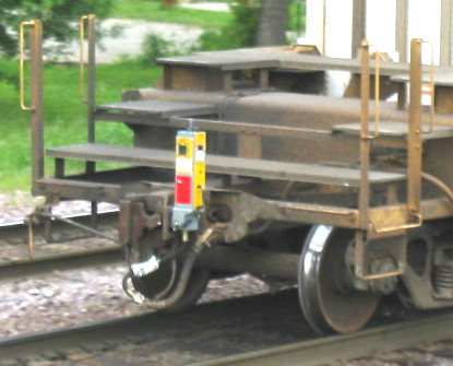 A FRED on an eastbound container train passing through Rochelle Railroad Park, Rochelle, on May 29, 2005. Photo by Sean Lamb (User:Slambo) This is a cropped version of :Image:FRED on a stack train.jpg = [1]